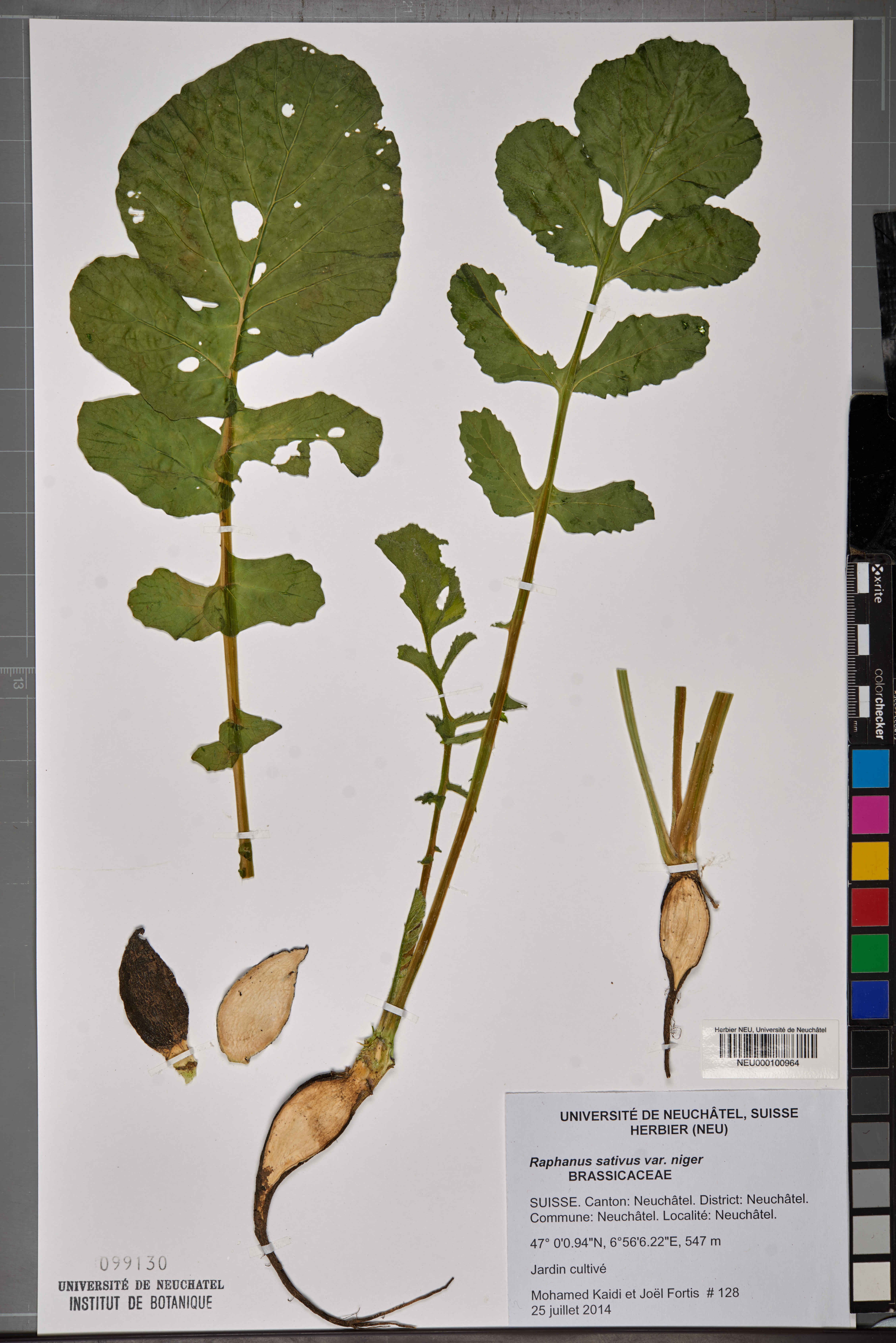 Dried pressed specimen of Raphanus sativus